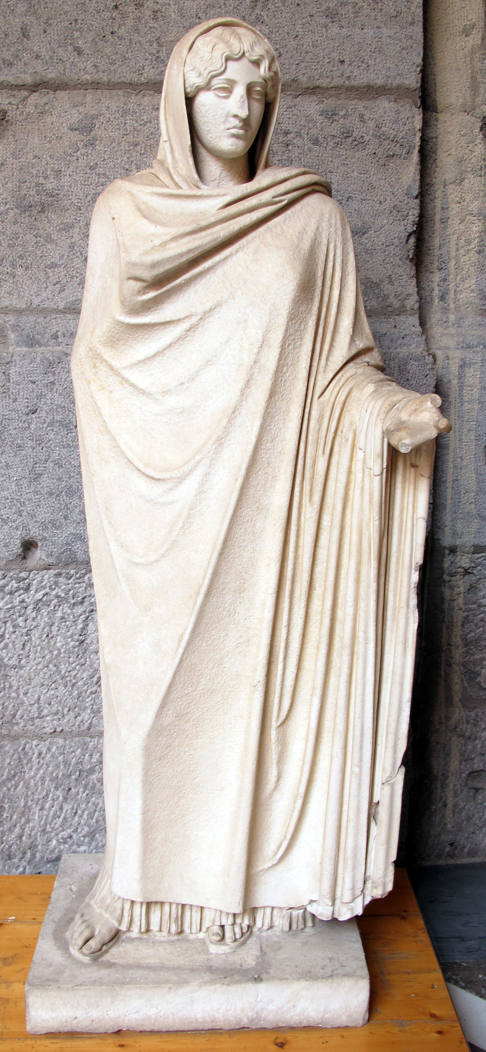 Ancient Roman statues in the Museo Archeologico (Naples)